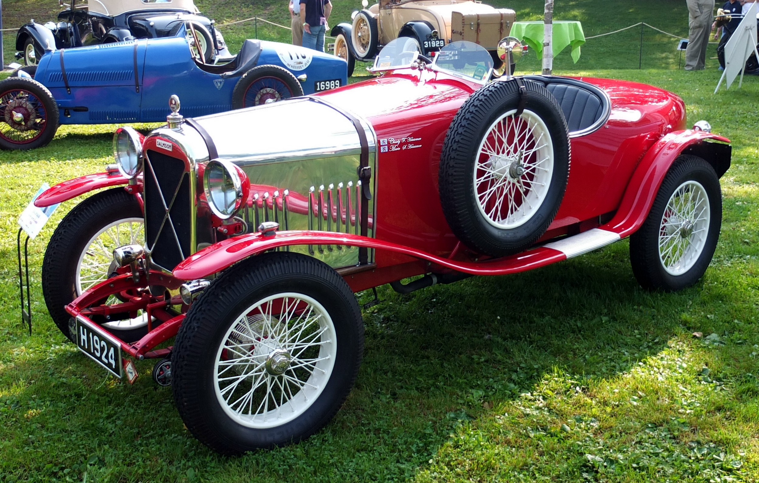 Salmson VAL3 "Grand Sport" (built 1924) seen at Concours d'Élégance in Mondorf-les-Bains, Luxembourg